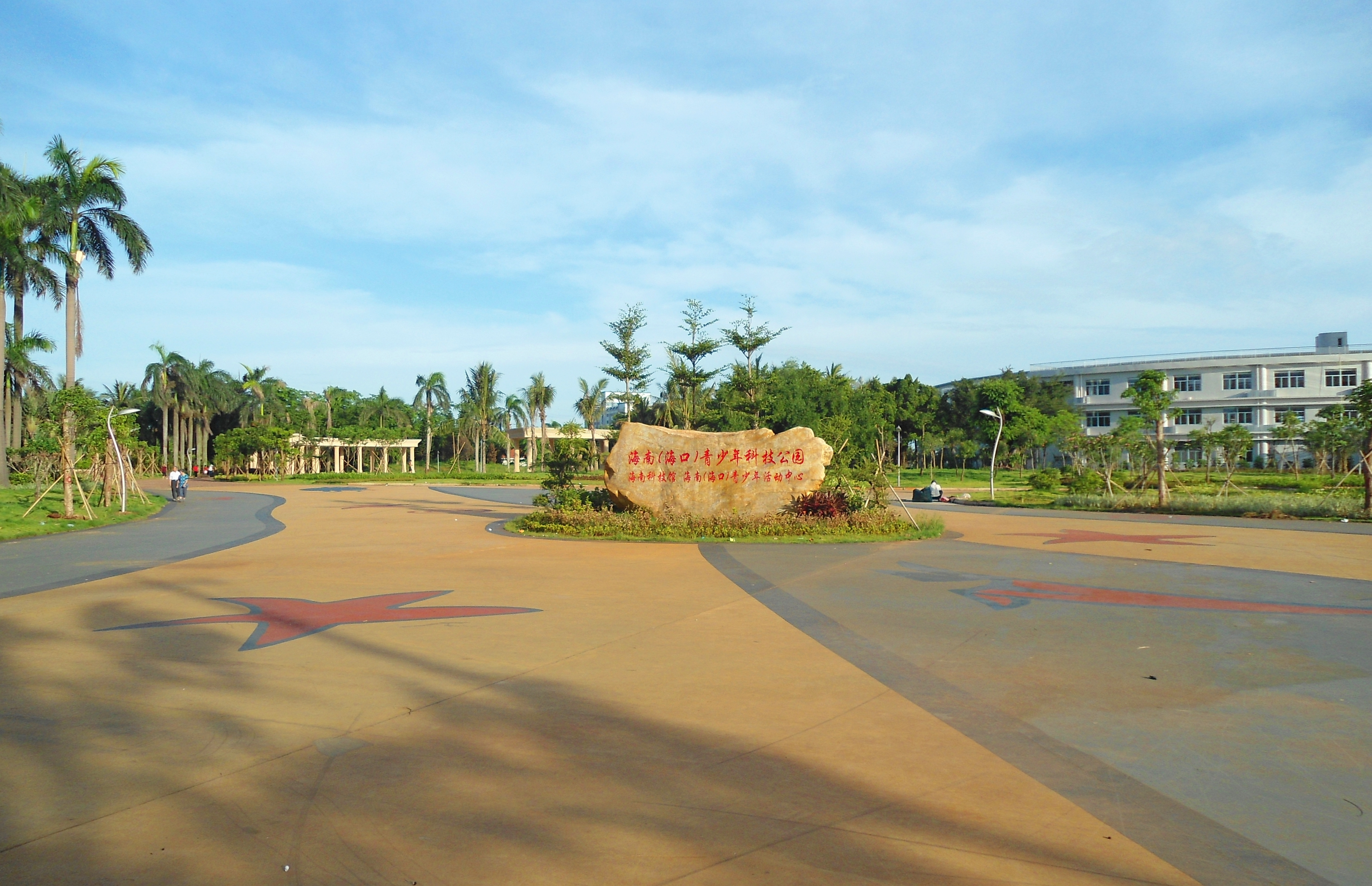 Binhai Park front entrance in 2012 06